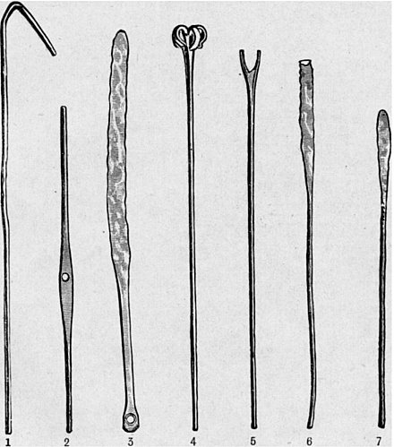 Detail of bits of the boat re Broighter Gold from Broighter, Limavady, County Londonderry, and on the Find of Gold Ornaments There in 1896 Robert Cochrane The Journal of the Royal Society of Antiquaries of Ireland, Fifth Series, Vol. 32, No. 3